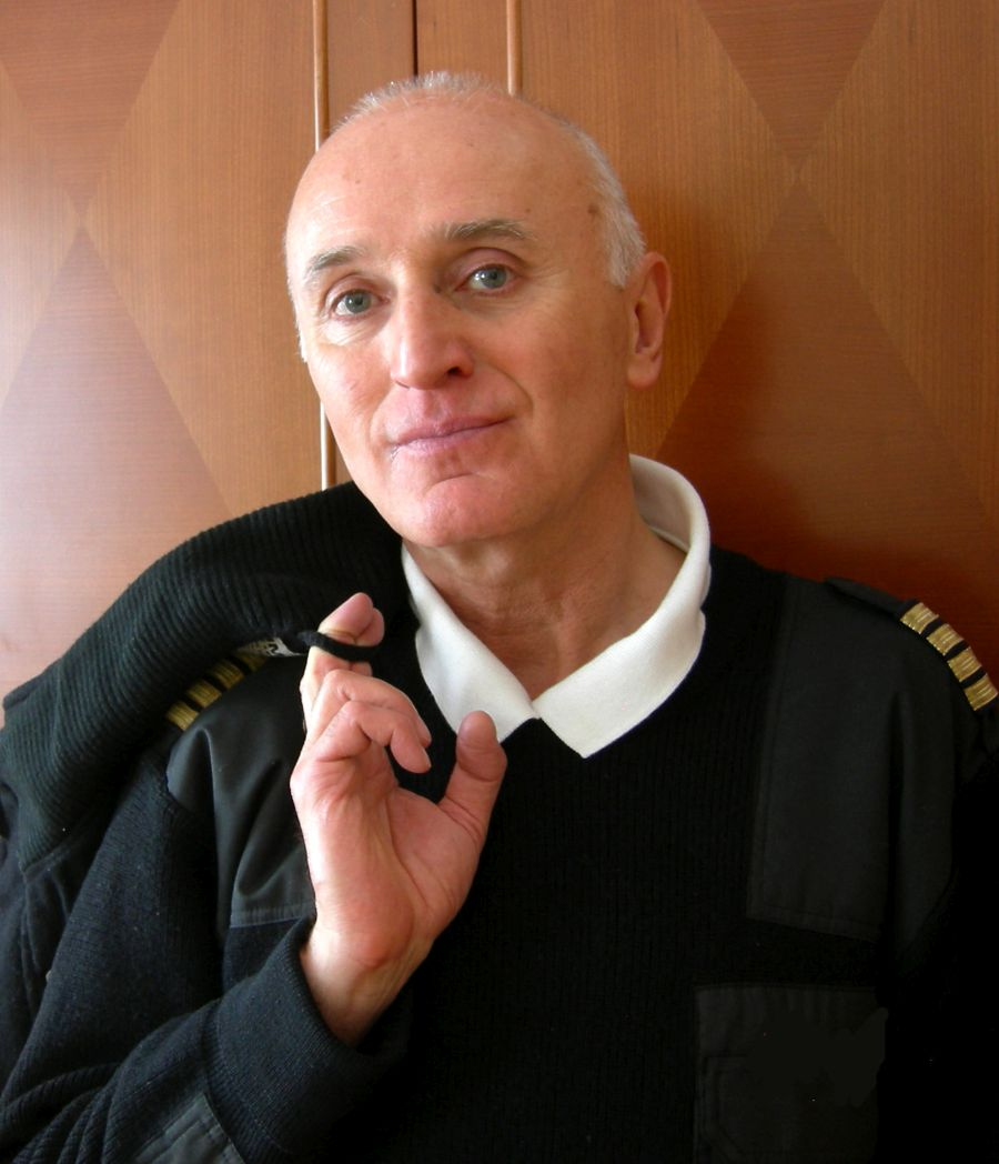 Zoran Modli as Prince Aviation captain portrait 2009